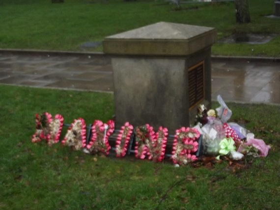 The newly-restored memorial to the 21 people murdered in the November, 1974 Birmingham Pub Bombings